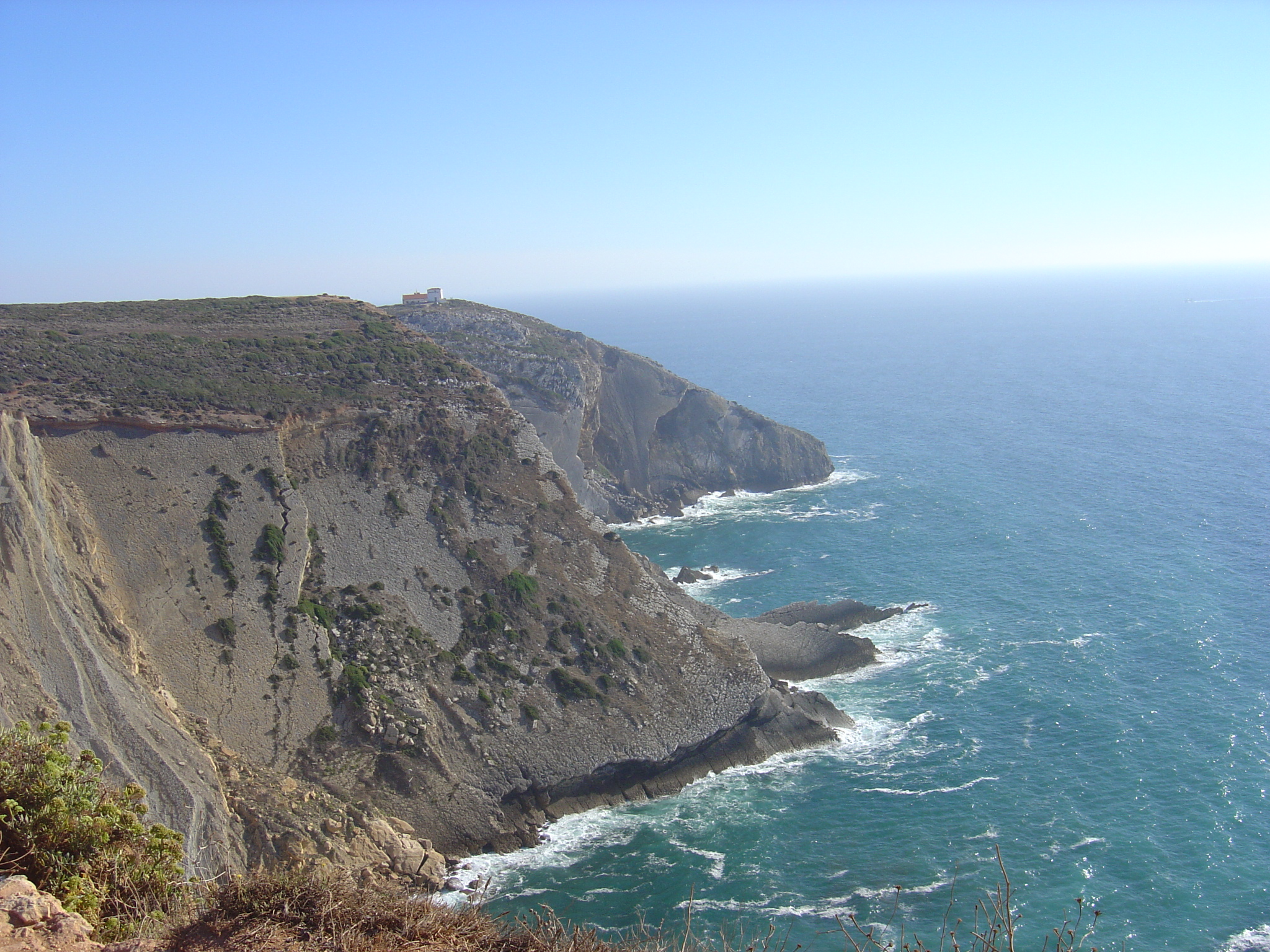 picture taken by User:Husond